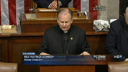 New House Chaplain Fr. Patrick J. Conroy delivers his first prayer as Chaplain of the House of Representatives. This is a screen shot taken from the C-Span broadcast of the House session.